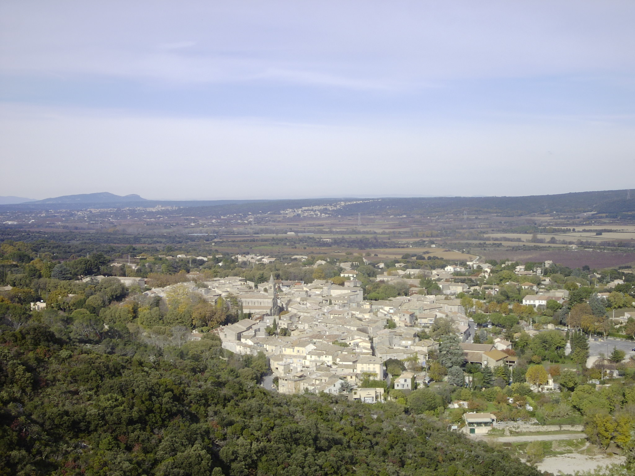 Collias's shot from the torte path